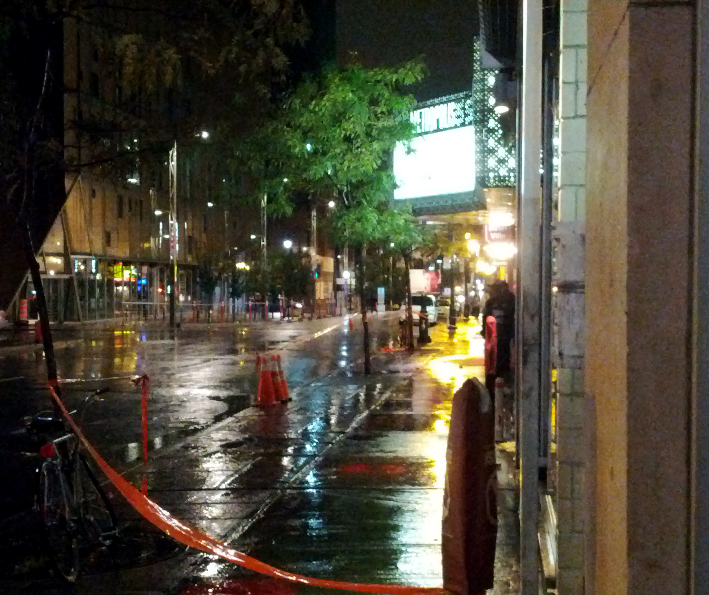 Caution tape and policemen on Ste. Catherine Street in Montreal after the 4 September 2012 shooting during prime minister Pauline Marois' victory speech at Metropolis on 2012 Quebec election night. Photo taken in front of Metropolis.